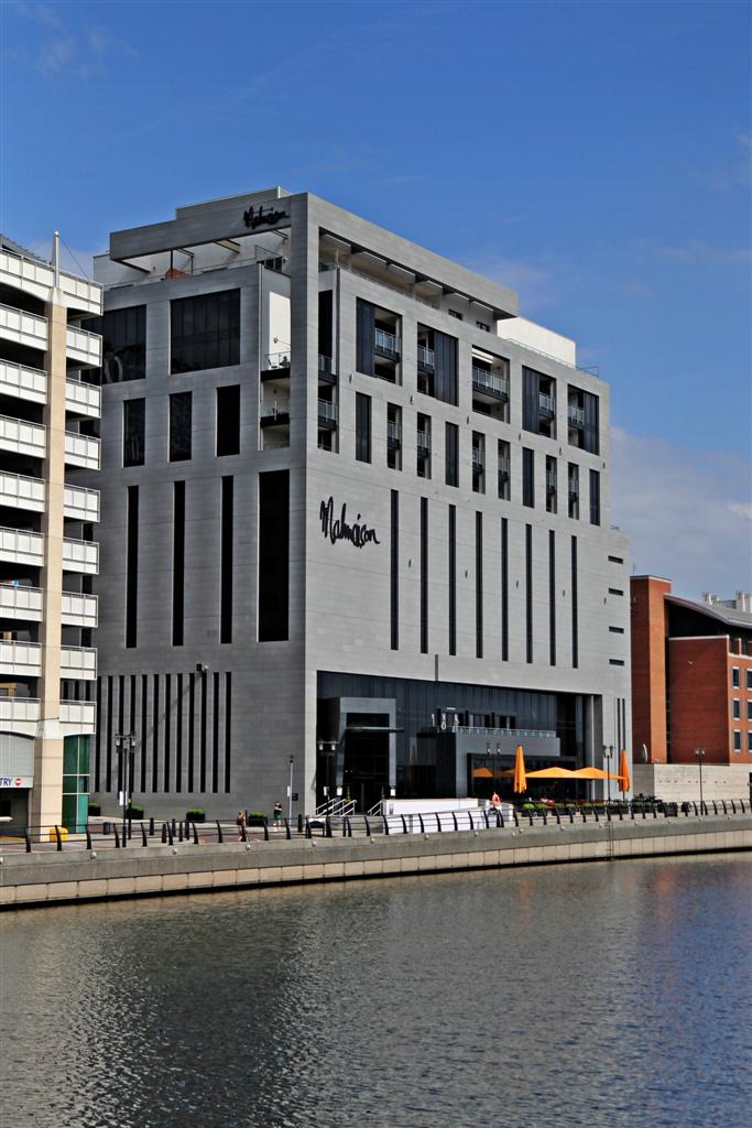 Malmaison Hotel, Princes Dock, Liverpool